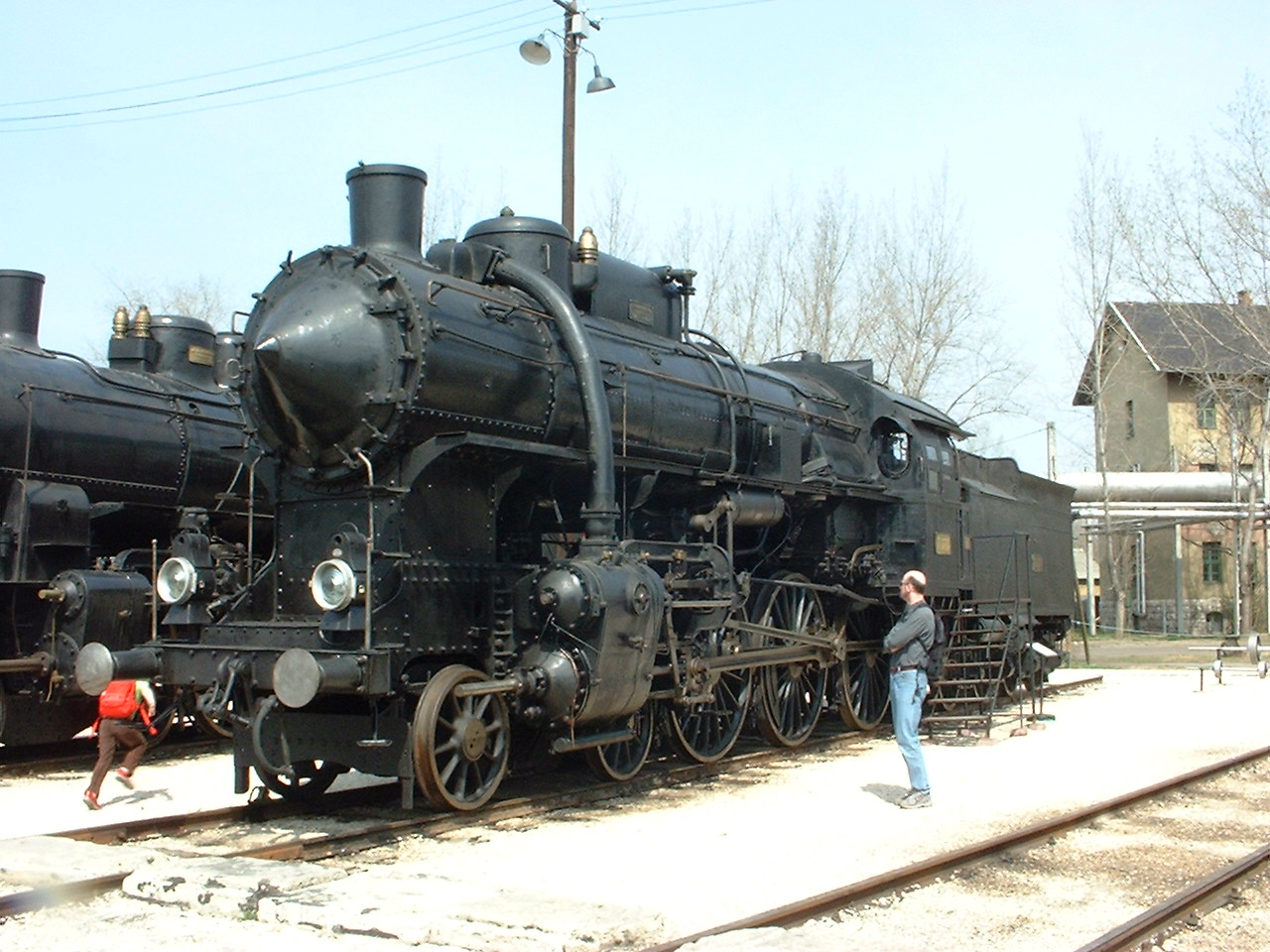 301.016 4-6-2 built by MAVAG (Budapest) 1914 at the Hungarian Railway Heritage Park Museum